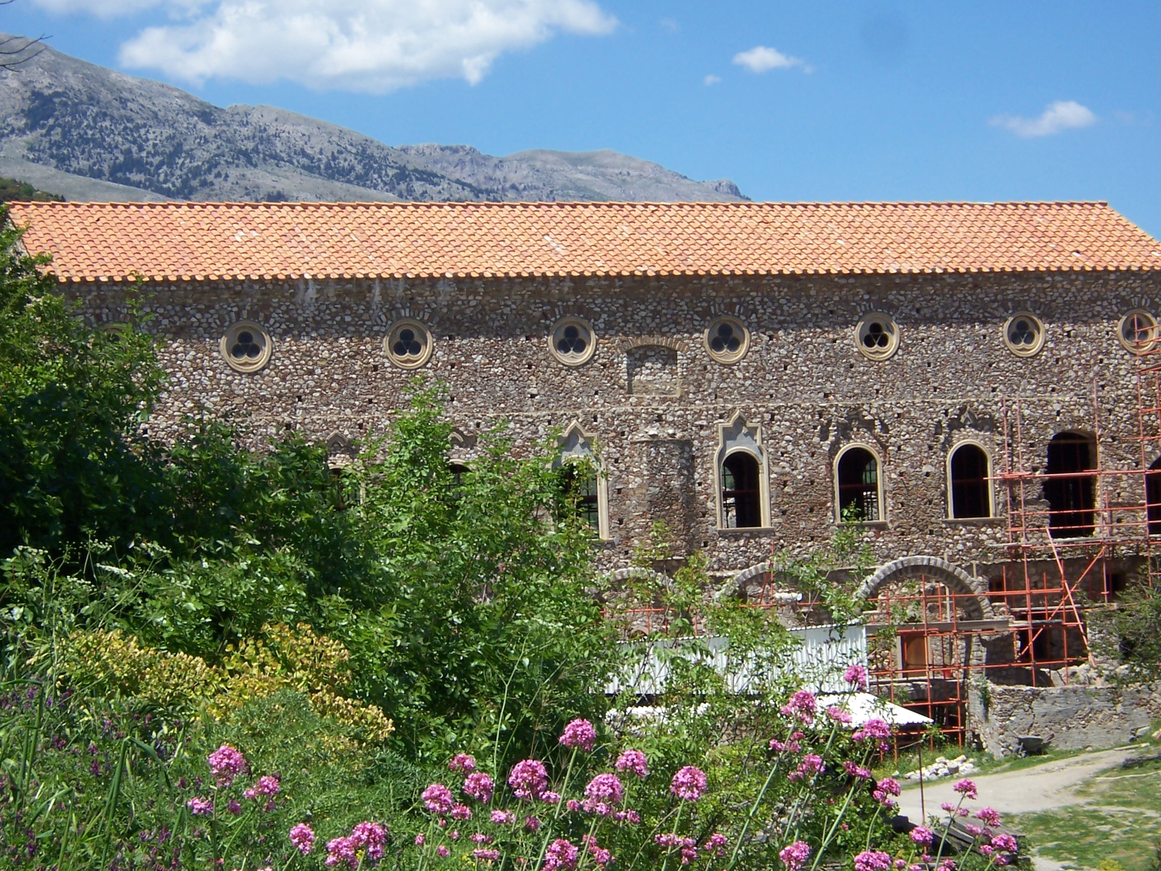 Palace of Mystras. Part built by the Paleologoi